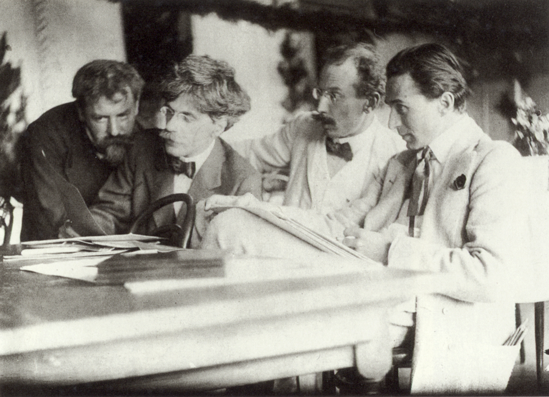 Frank Eugene: Eugene, Stieglitz, Kühn and Steichen Admiring the Work of Eugene, 1907, platinum print, Yale Collection of American Literature